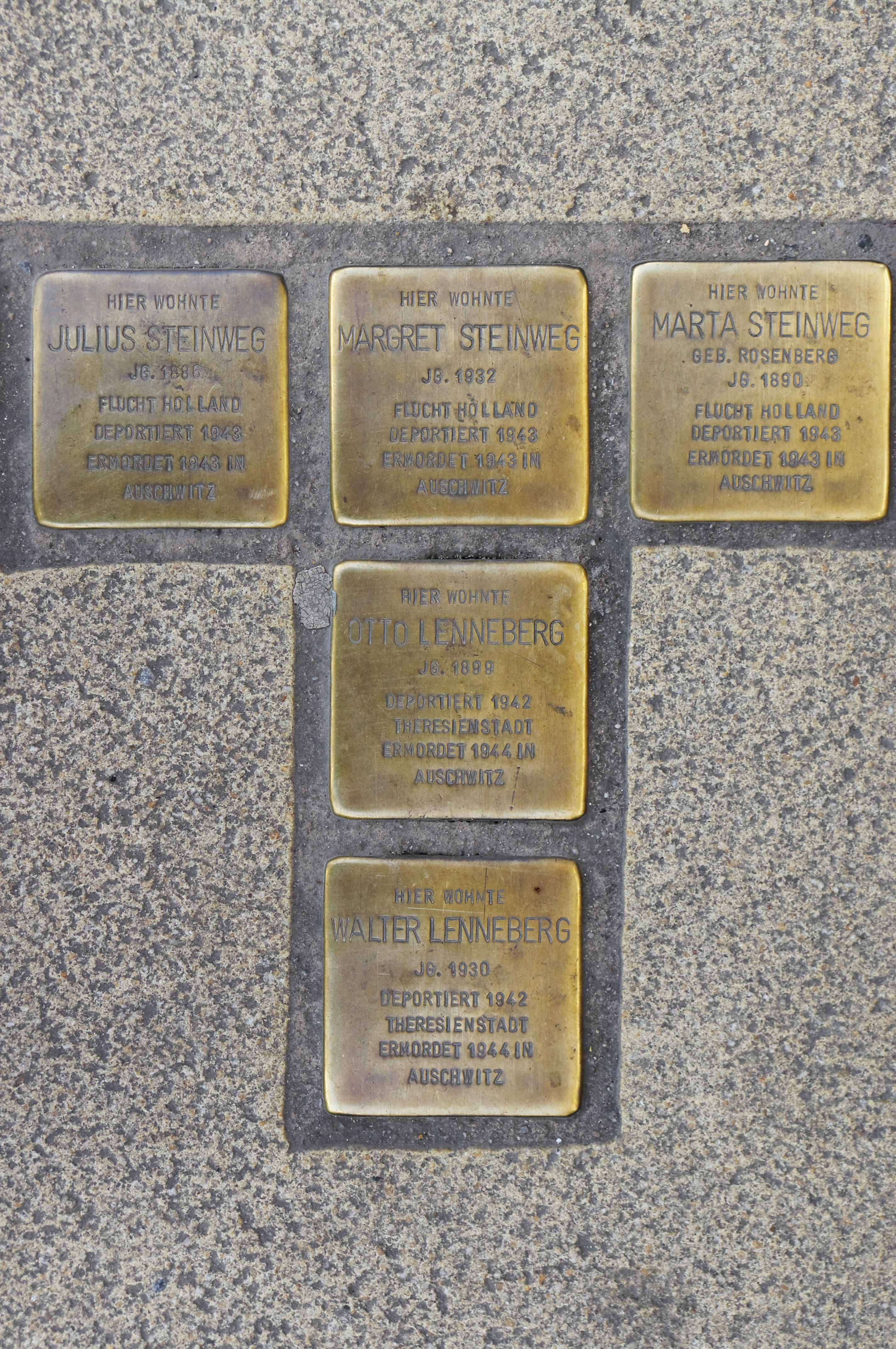 Stolpersteine at house Aplerbecker Markt 6 in Dortmund, Germany